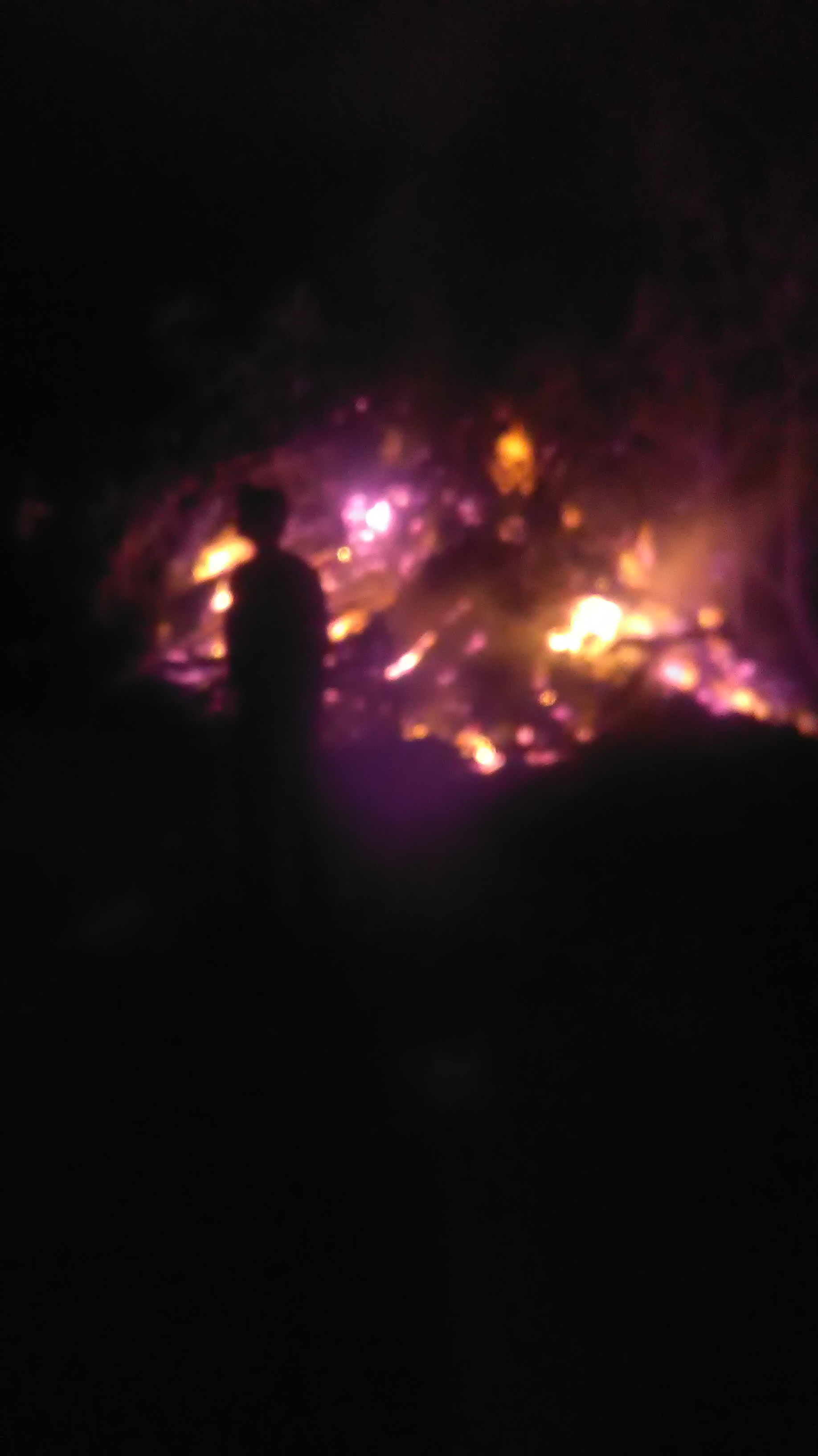 This is image of Holika dahan 2017